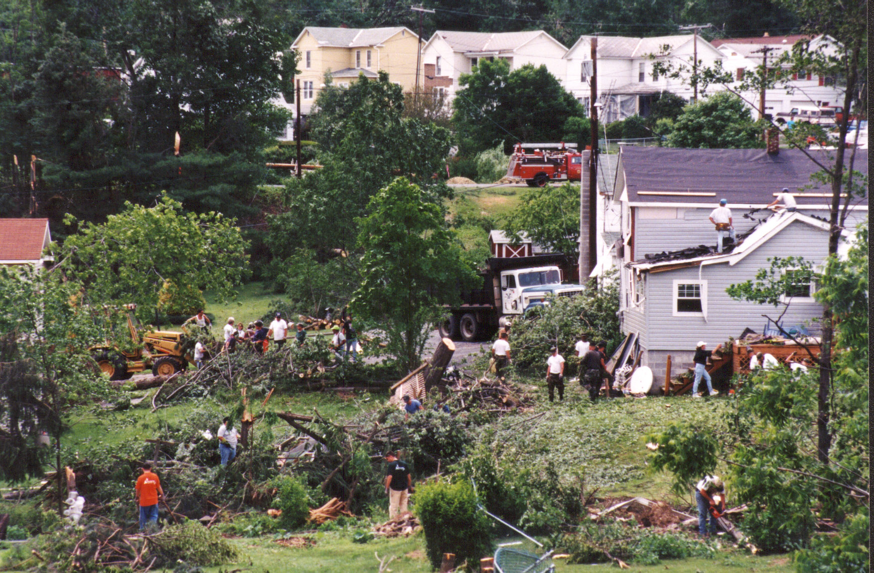 Frostburg, MD, 6/01/1998 -- Tornado damage. Photo by: Liz Roll/FEMA News Photo